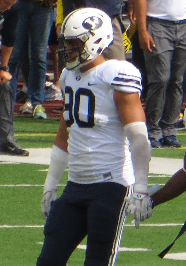 This would be the last happy moment of the day for me. It was all downhill from here.